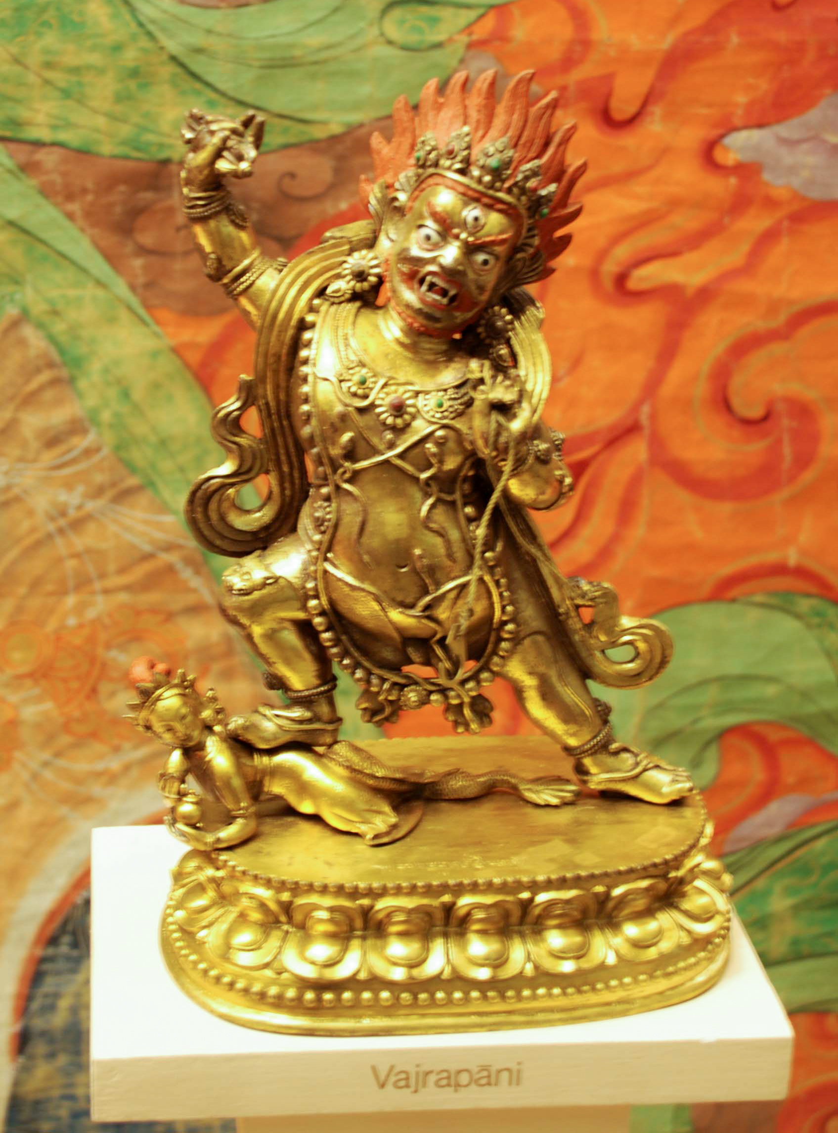 Vajrapani statue in American Museum of Natural History, New York